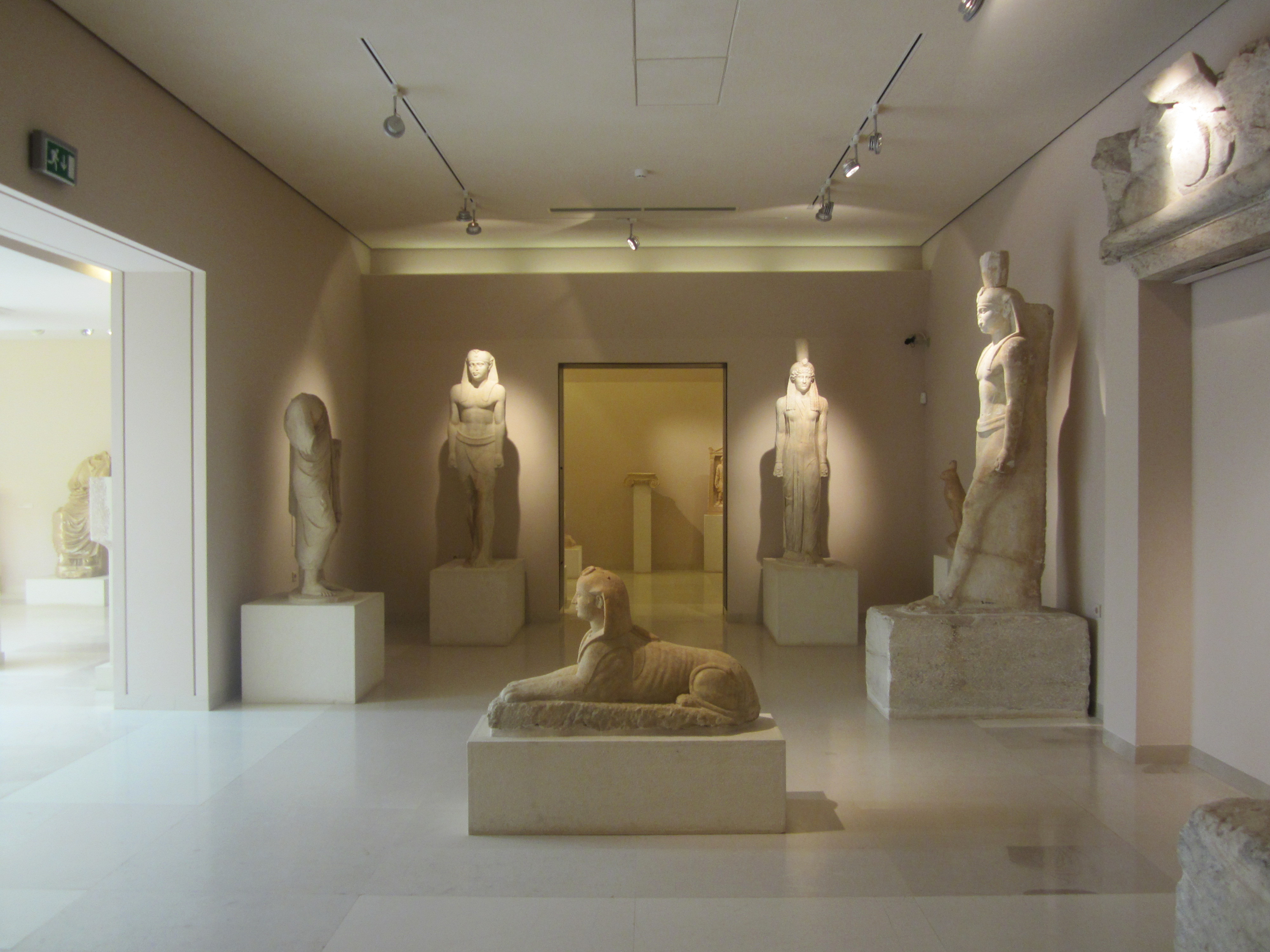 Collections of the Archaeological Museum of Marathon, Greece.